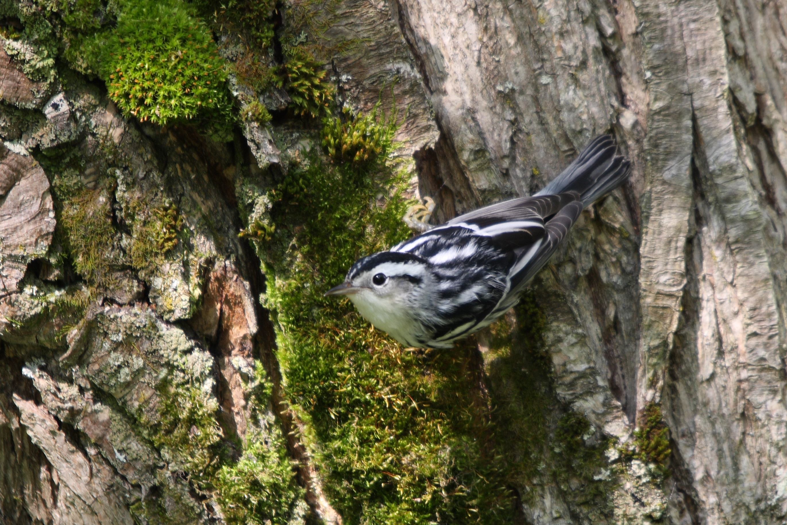 Black-and-white Warbler, at Cap Tourmente National Wildlife Area, Quebec, Canada